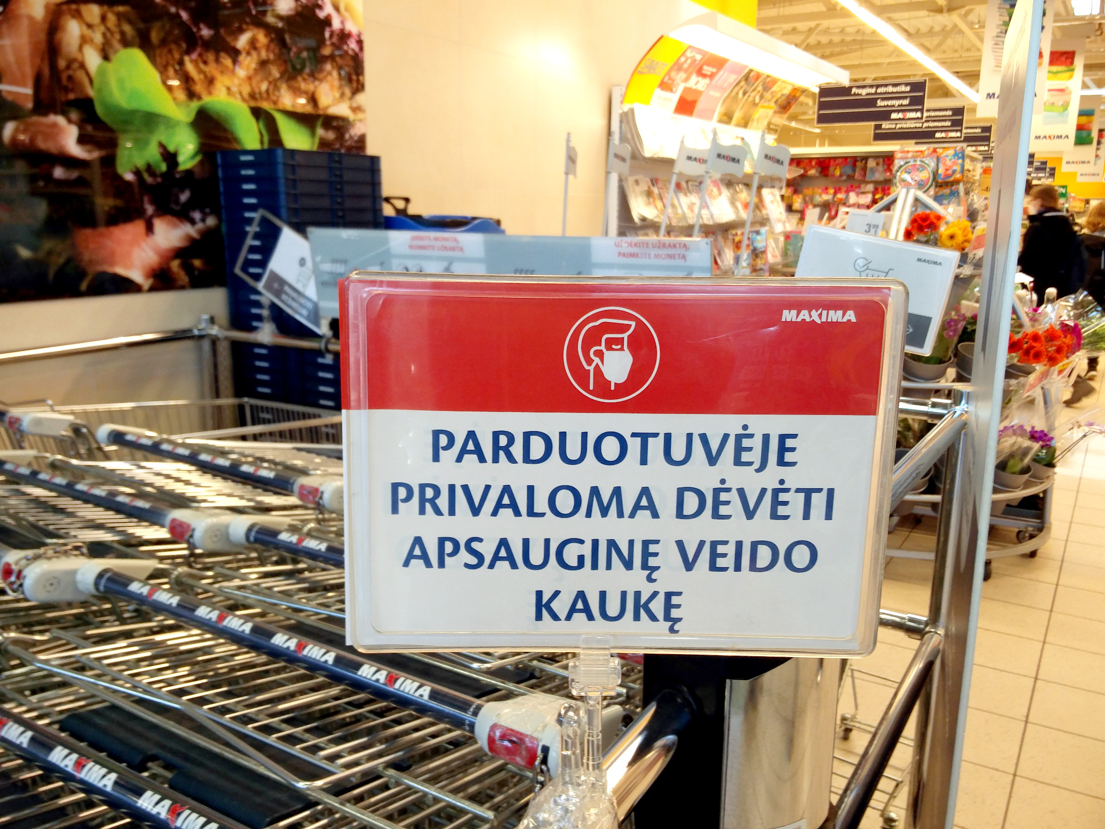 A request to wear face mask in a supermarket in Lithuania during quarantine (23 May, 2020)